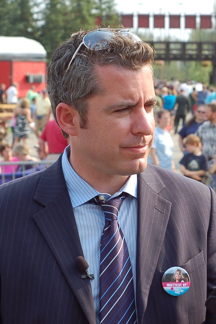 Jason Jones conducting an interview for The Daily Show at the 2009 Governor's Picnic at Pioneer Park in Fairbanks, Alaska.